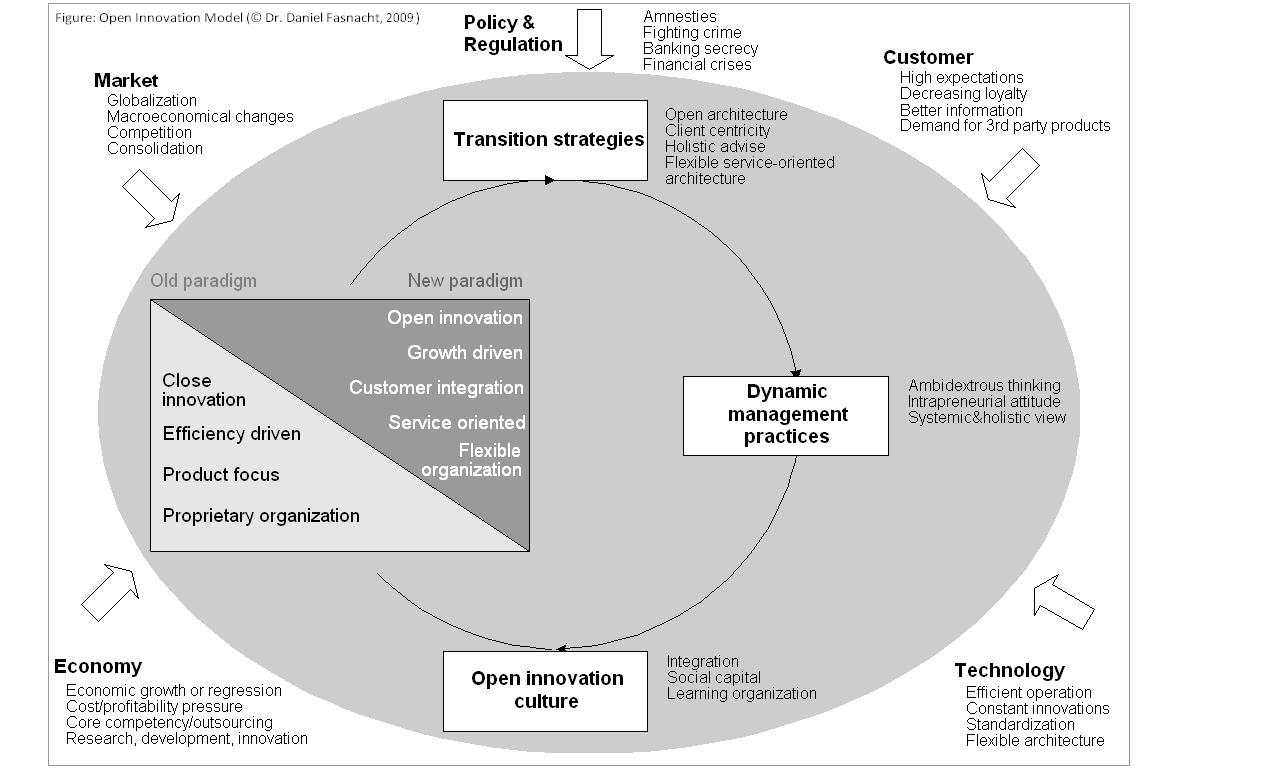 Open Innovation Model of the book